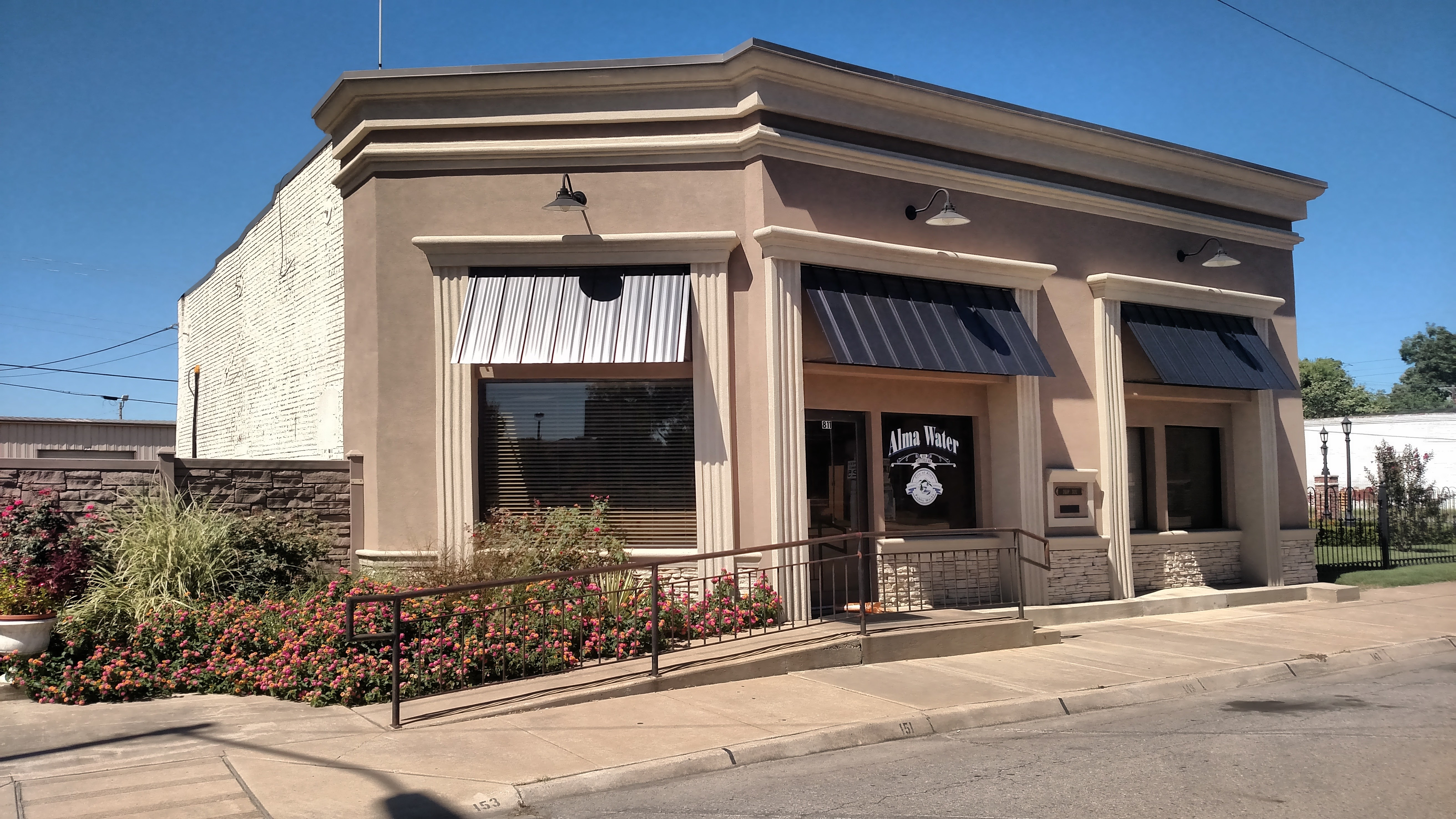 Alma Water Utilities main office in downtown Alma, AR